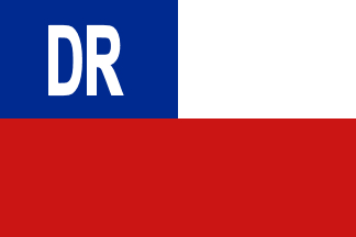 Flag of Revolutionary Directory